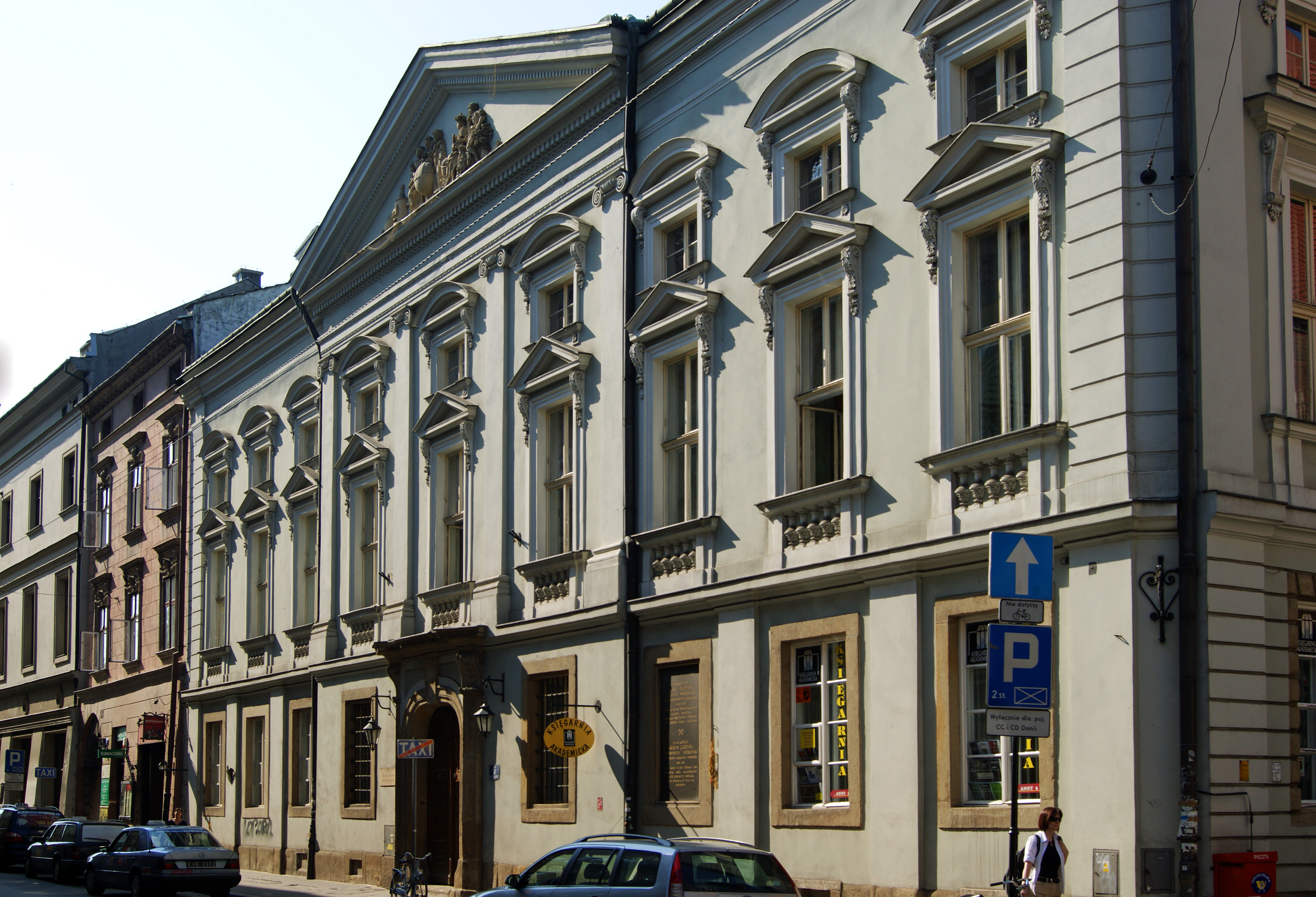 Jagiellonian University Collegium Kollataja (Collegium Phisicum), 6 sw. Anny street, Old Town, Krakow, Poland